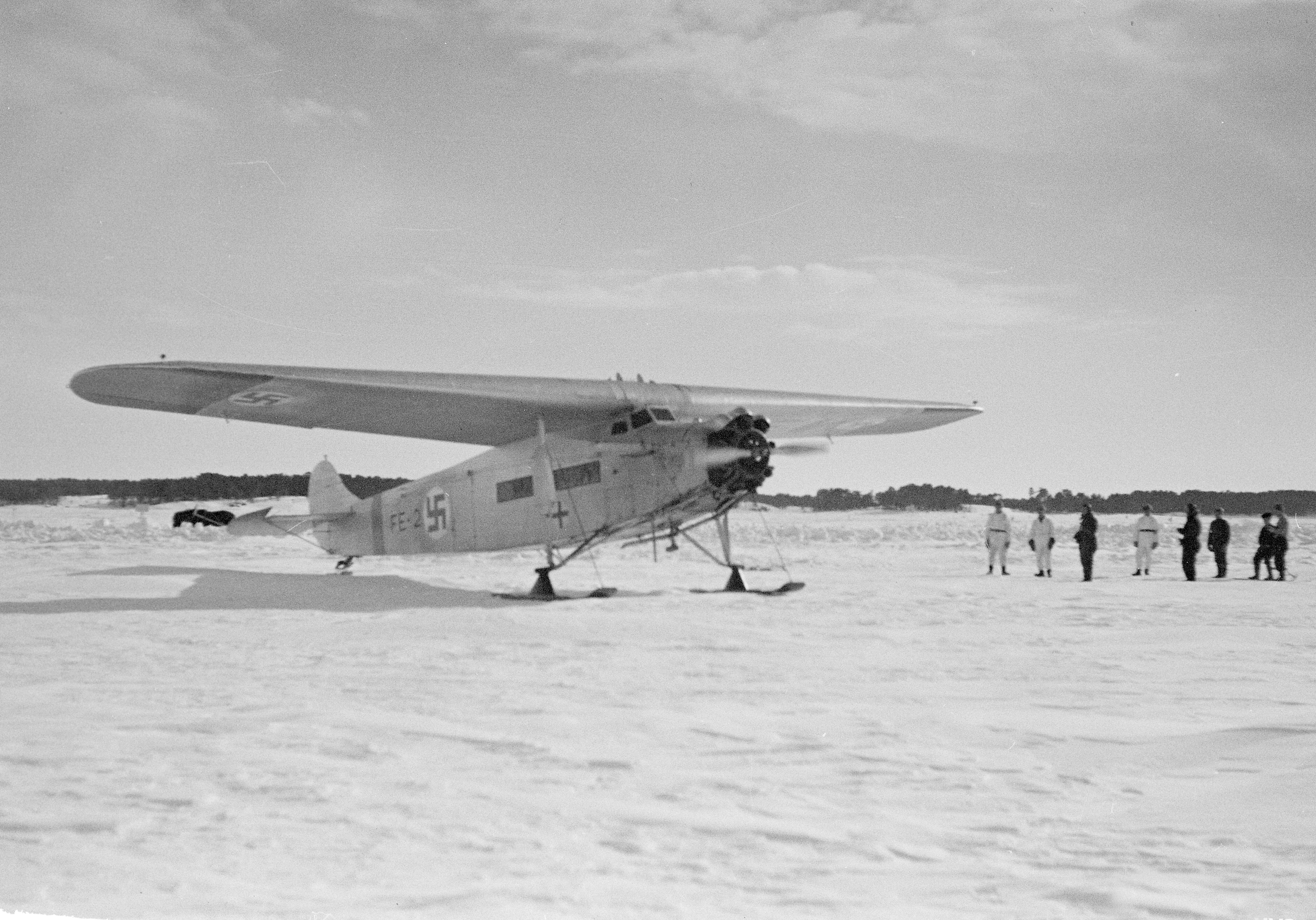 Fokker F.VII of the Finnish Air Force (SA-kuva 78777)